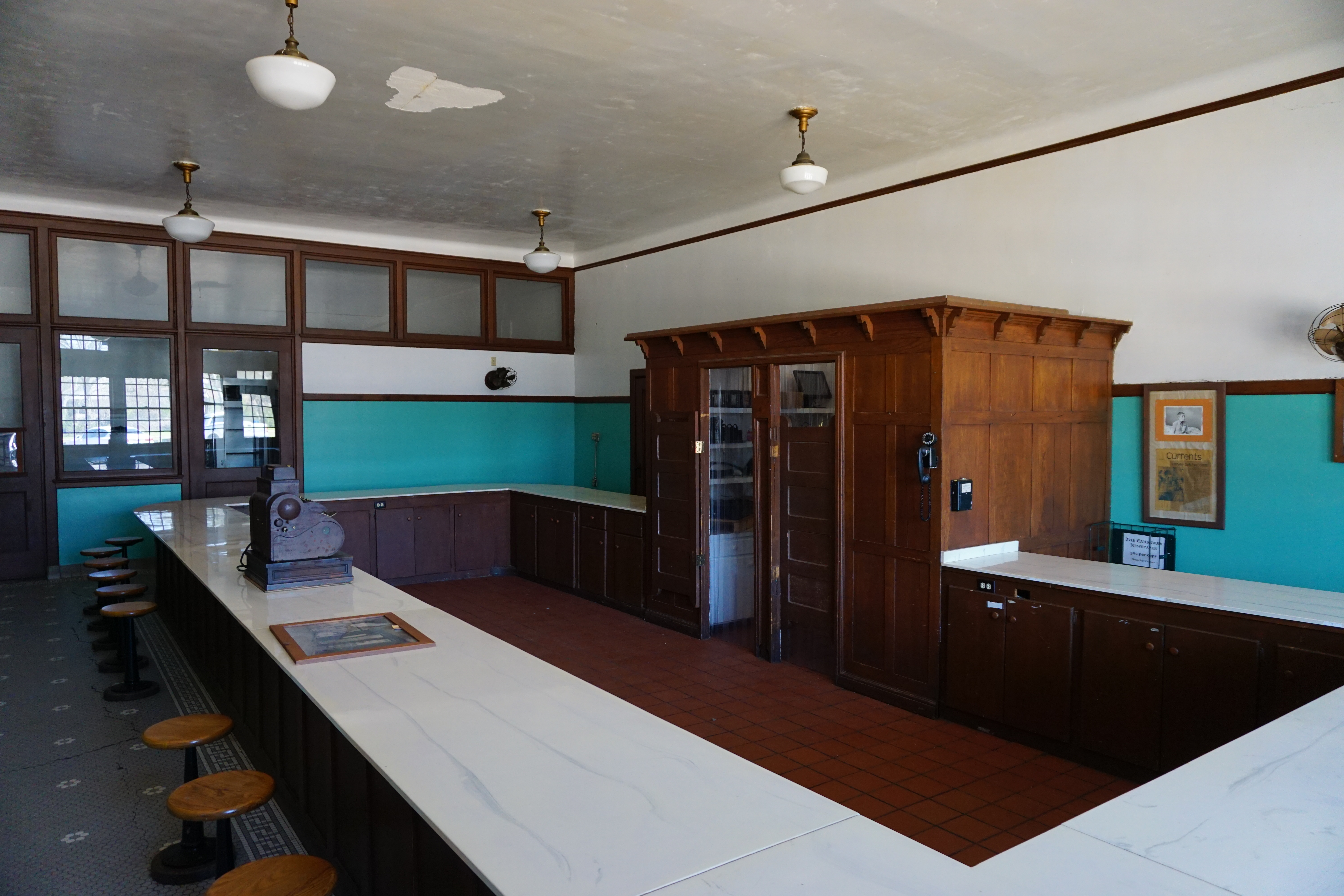 The Harvey House Restaurant at the Frisco Depot Museum in Hugo, Oklahoma (United States).